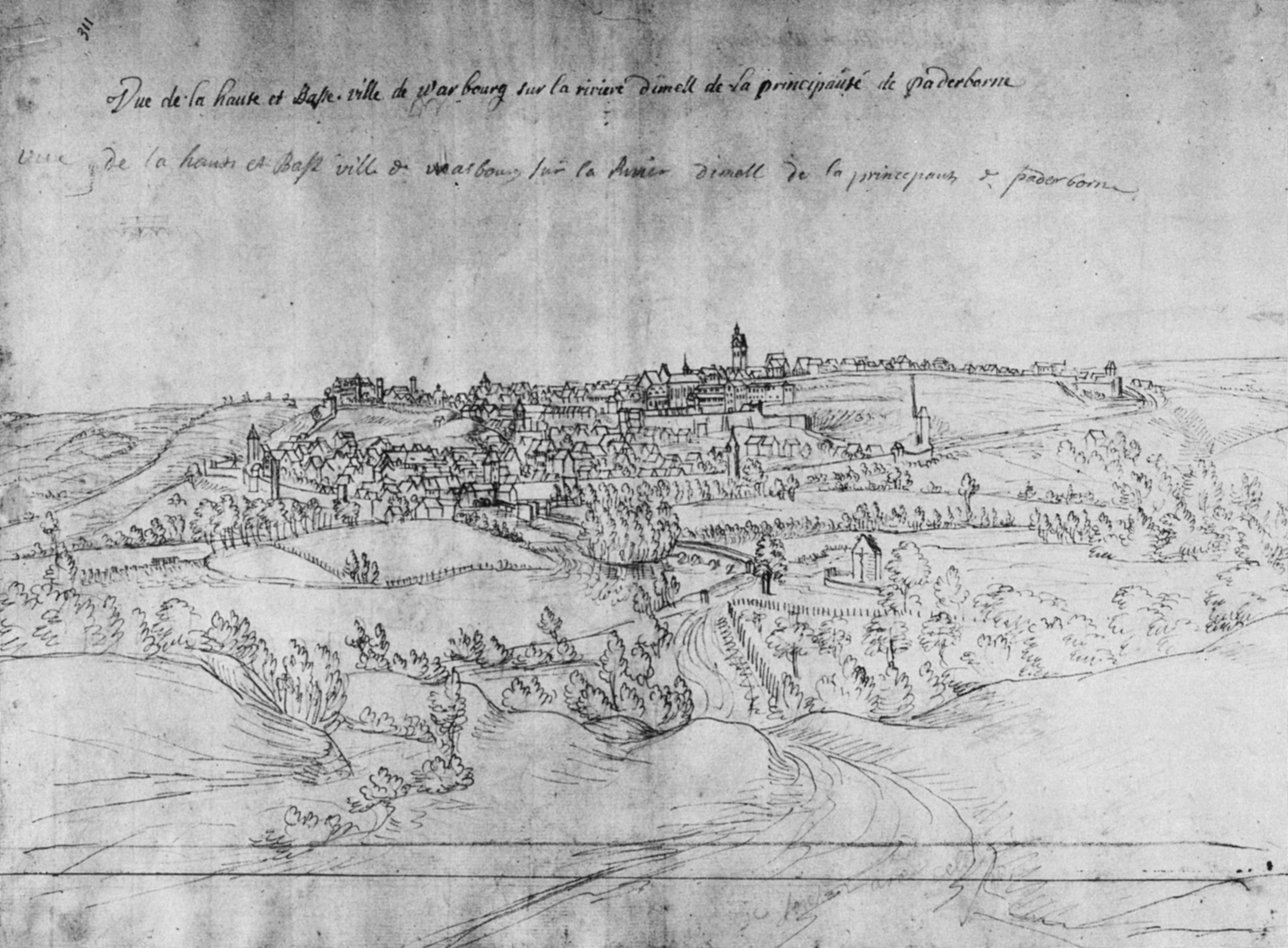 Sketch of the town Warburg with the title "Vue de la haute et Basse ville de Warburg sur la riviere Dimell de la principaute de Paderborn"